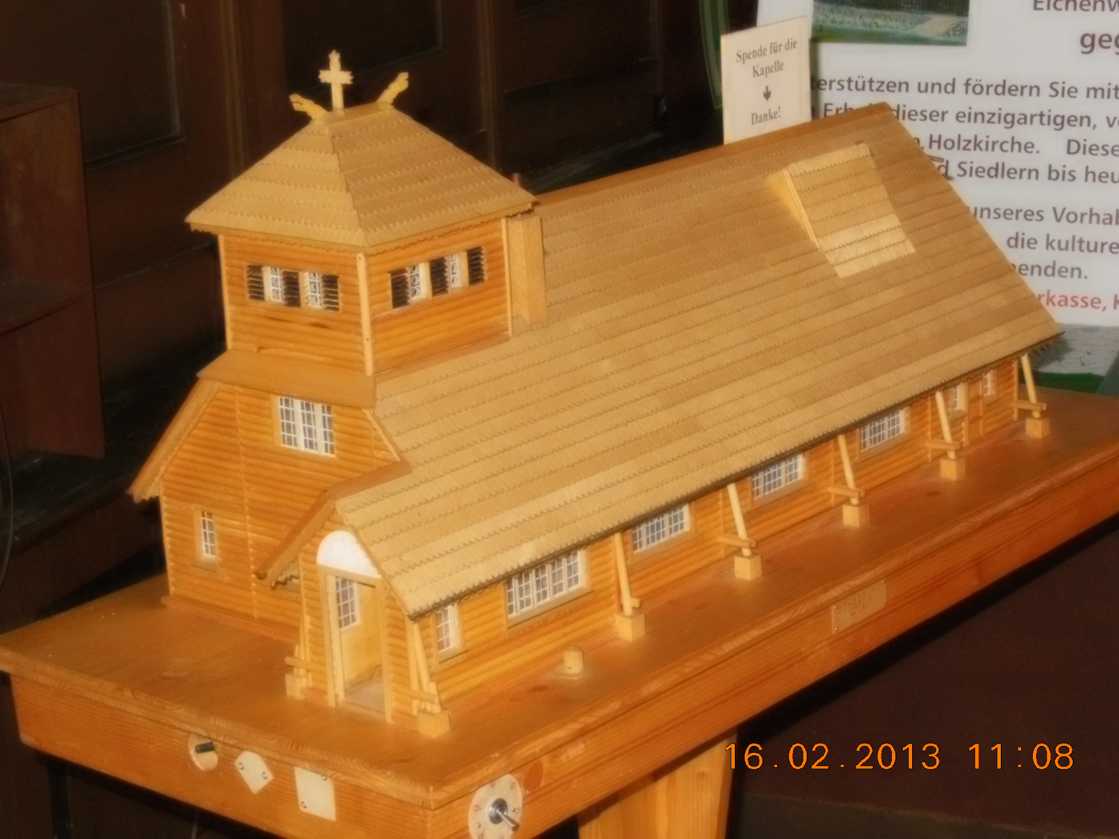 Southern side (model)